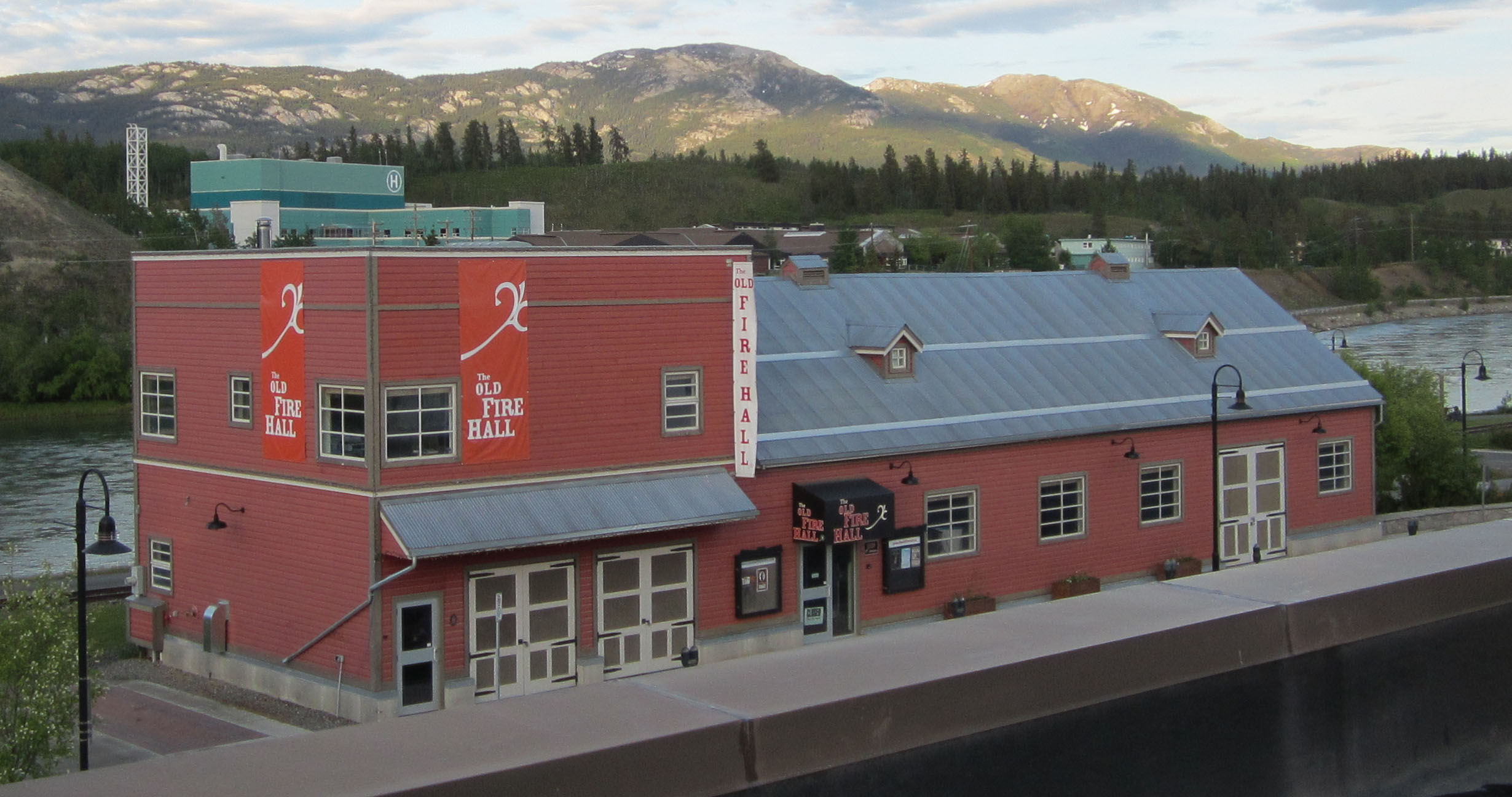 From a roof across the street, The Old Fire Hall in downtown Whitehorse, Yukon. The Yukon River and Whitehorse Hospital can be seen in the background.